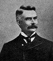 William S. Linton, US Representative from Michigan